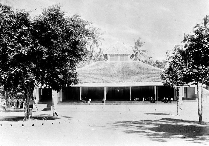 Mosque